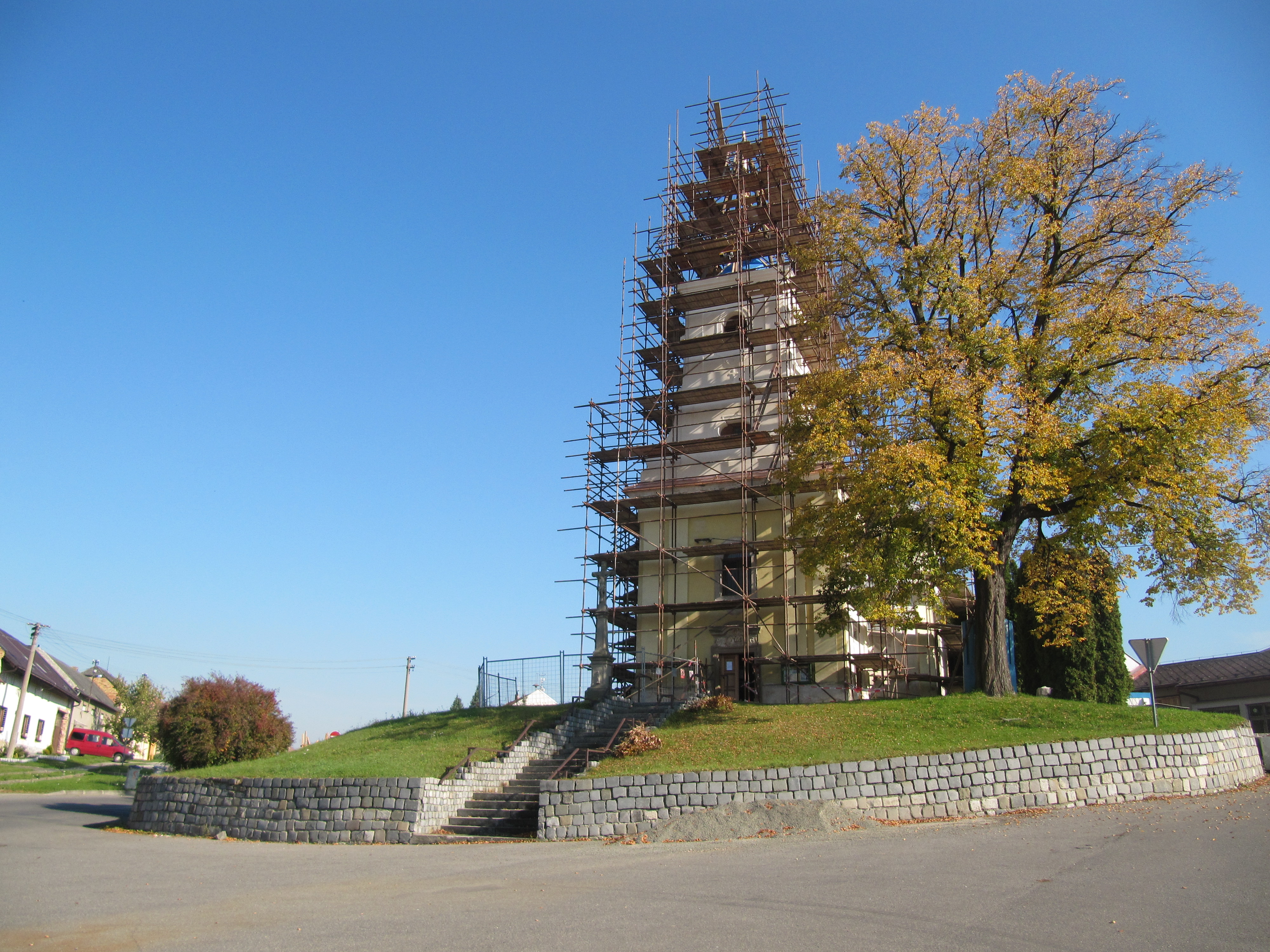 Chvalnov-Lísky in Kroměříž District, Czech Republic, part Chvalnov. Church of St. James.